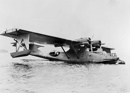 Papua New Guinea, Port Moresby. A Consolidated PBY Catalina aircraft of No. 11 Squadron RAAF, code BN-K, serial no. AM269, secured to a mooring buoy in the harbour.